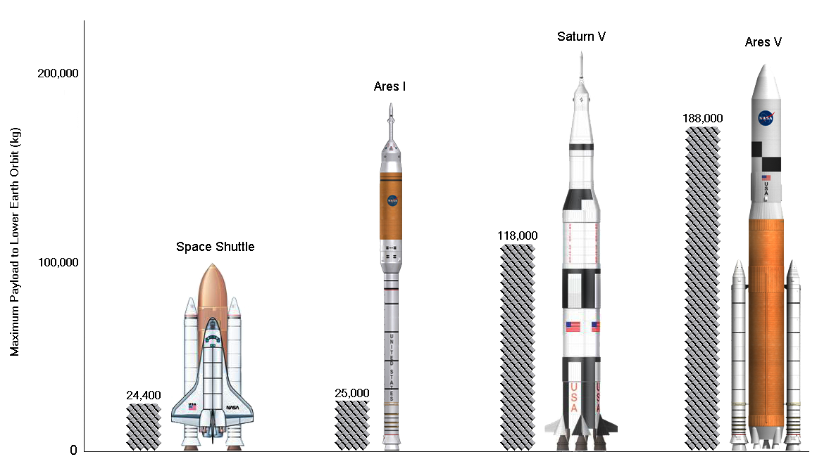 This is a derivative work, based upon original image, Size Comparison.